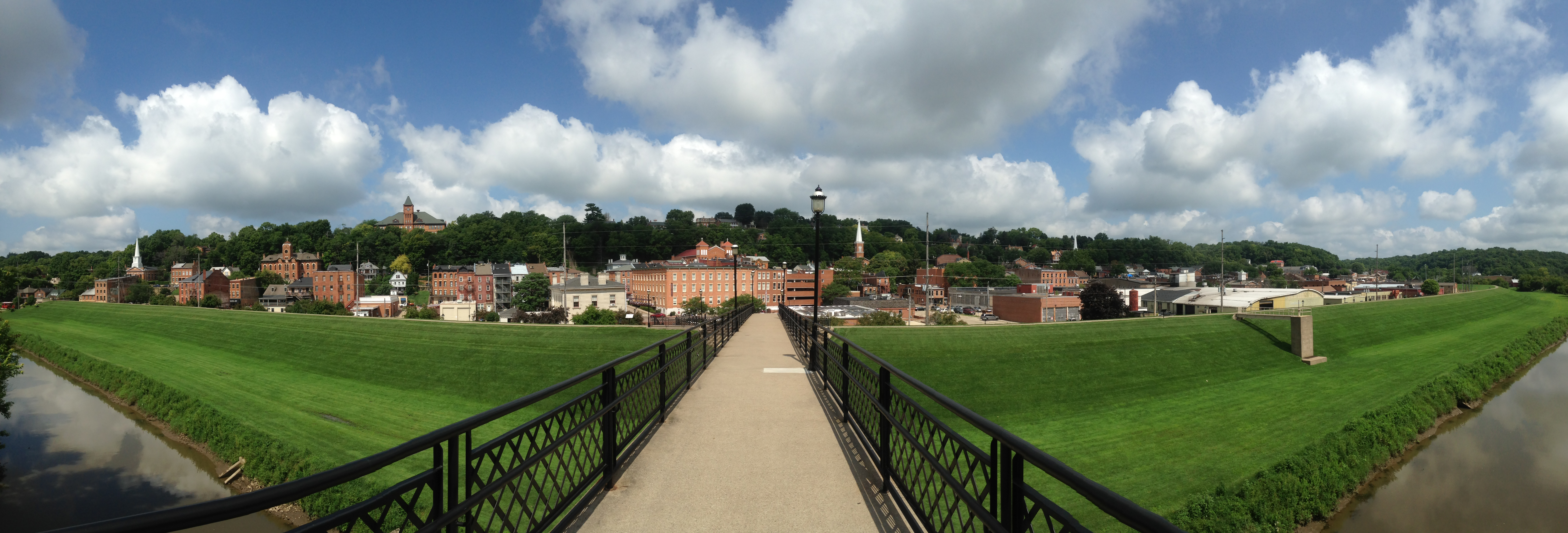 The skyline of downtown Galena, Illinois, United States, from the footbridge above Galena River.